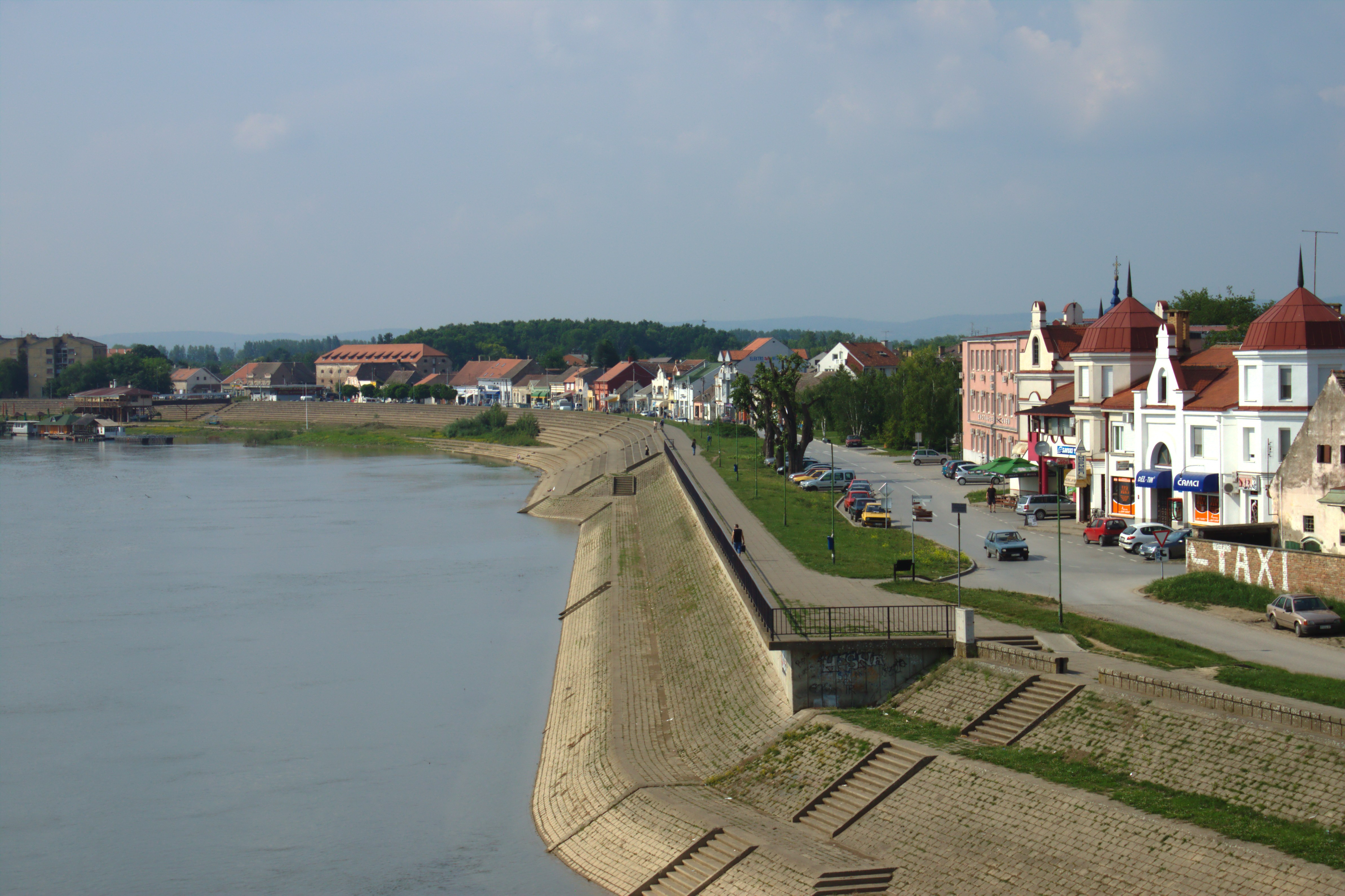 Sava embankement in the town of Sremska Mitrovica, view from a bridge over the river, Serbia